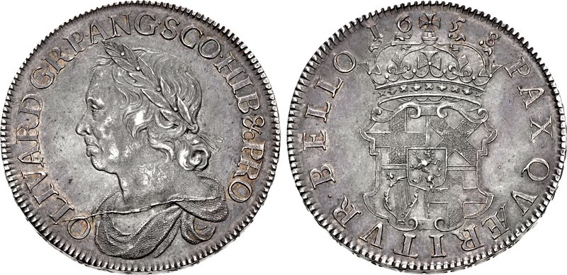 COMMONWEALTH. Oliver Cromwell. Lord Protector, 1653-1658. AR Crown (39mm, 29.99 g, 6h). London (Tower) mint. Dated 1658/7. OLIVAR • D • G • R • P • ANG • SCO • HIB & PRO, laureate and draped bust left / PAX • QVÆRITVR • BELLO, crowned coat-of-arms. Lessen E12; ESC 10; North 2745; SCBC 3226. In NGC encapsulation graded AU 58. Toned.